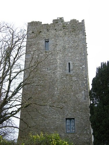 Clomantagh (or Croomantagh) Castle Clonmantagh (or Croomantagh) Castle, County Kilkenny. A sideways sheela-na-gig is carved in a quoin stone 10 metres off the ground (on the left side of the castle just below the level of the top window). The castle has been restored with glass in the windows. It is rented out for visitors in the summer months.